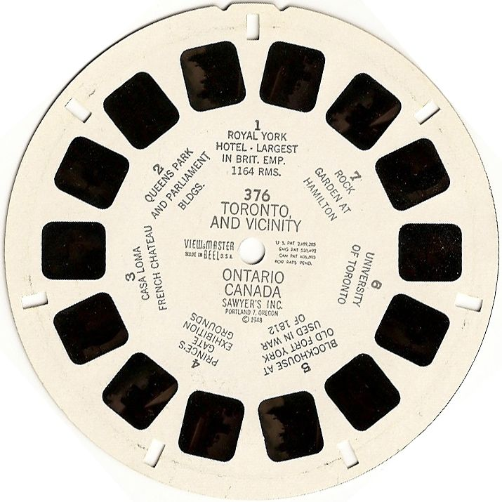 View-master reel of Toronto and vicinity, from 1948.